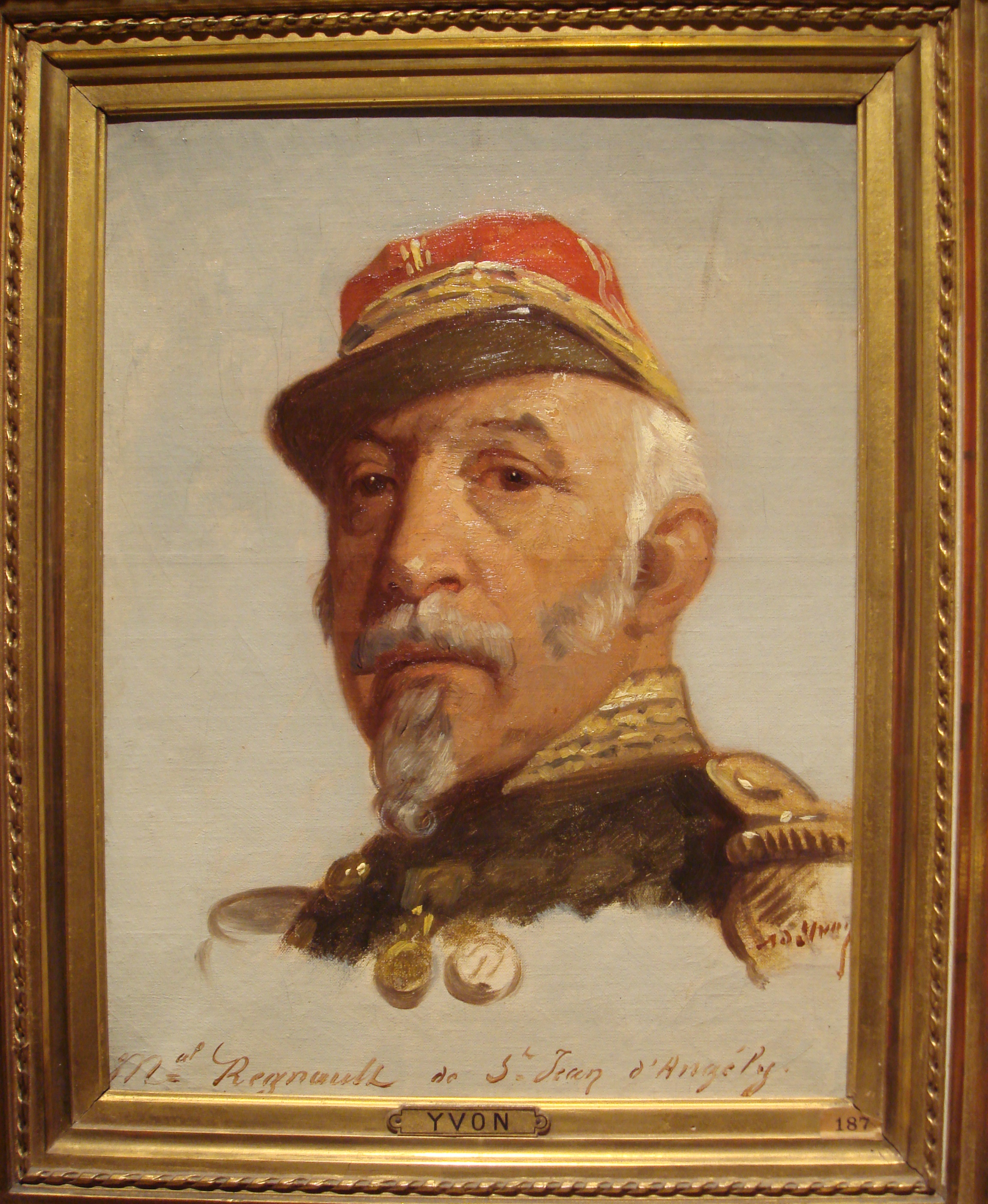 Auguste_Regnault_de_Saint-Jean_d'Angely, painting by Adolphe Yvon (1817-1893)